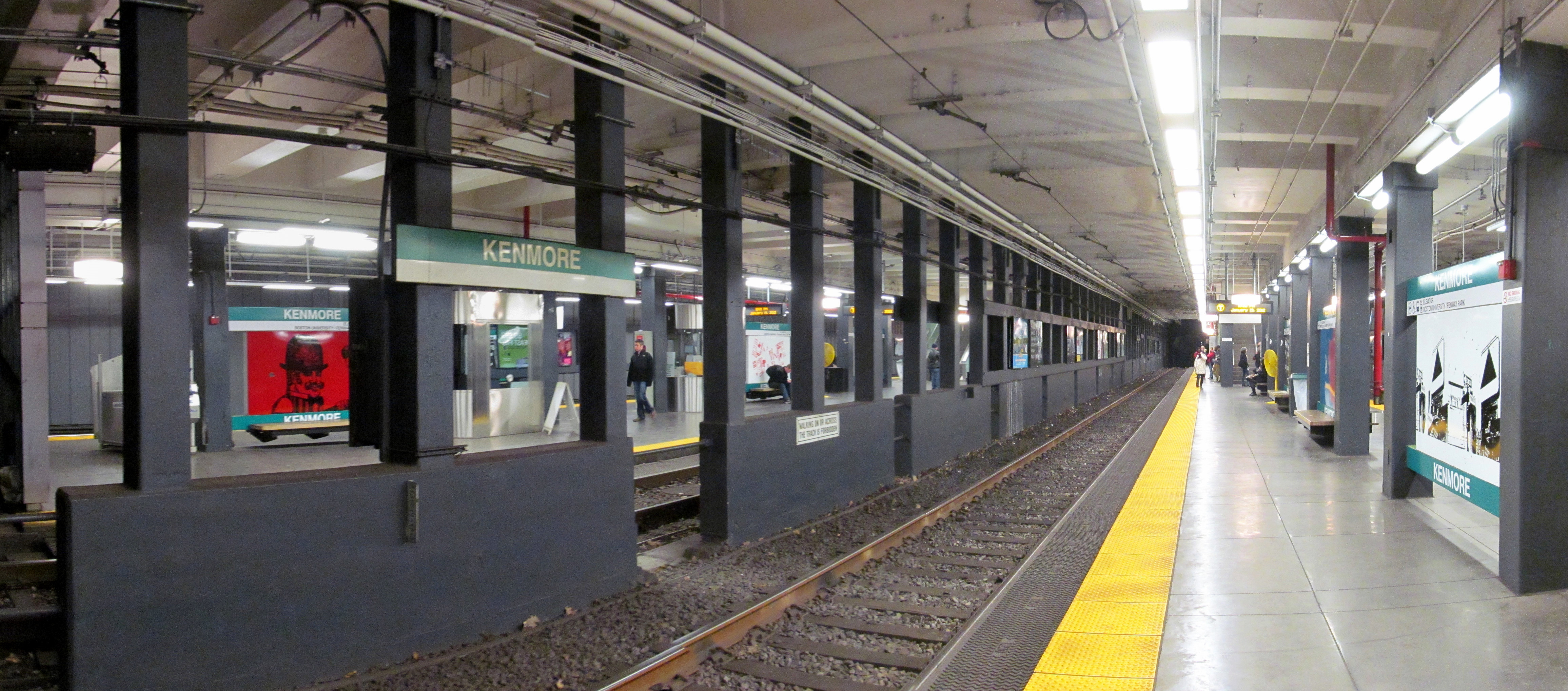 Outbound platform at Kenmore station